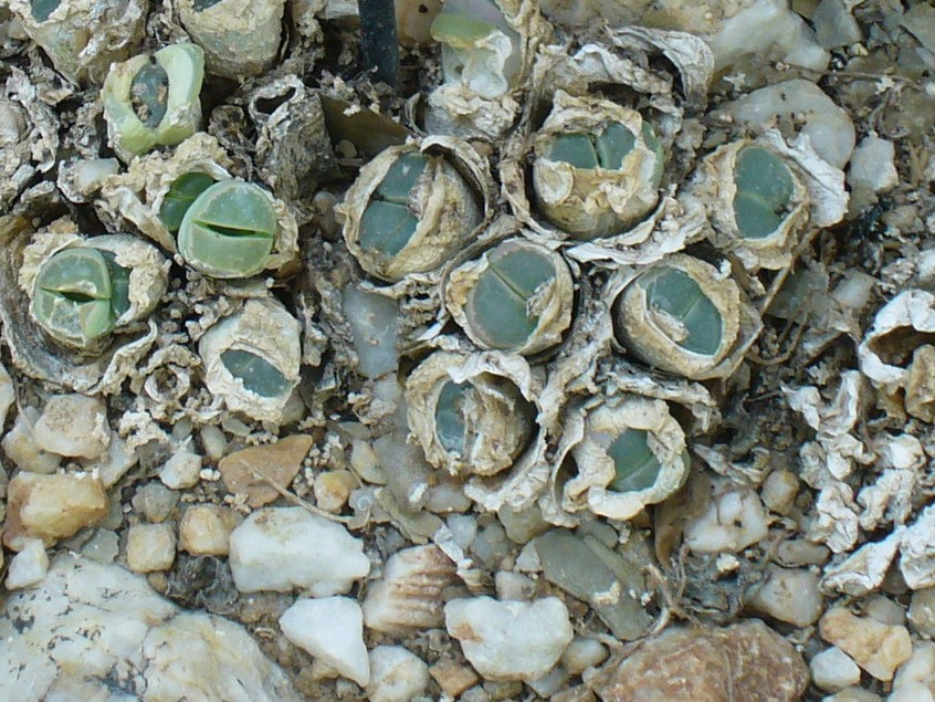 Lithops olivacea